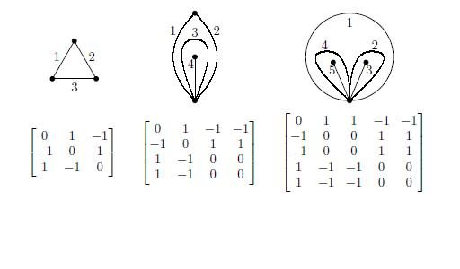 Triangulations of surfaces and their associated exchange matrices.